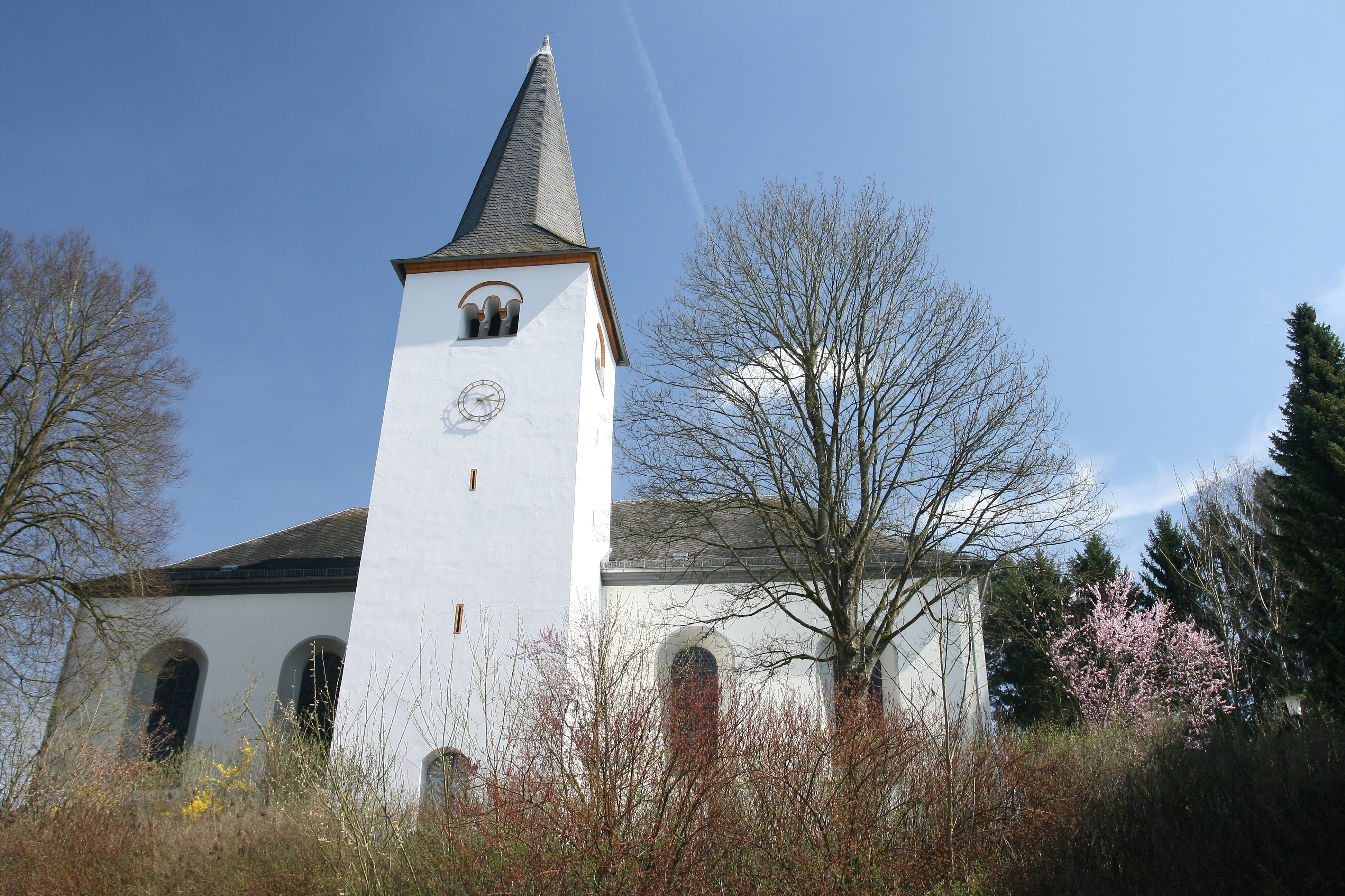 Catholic church St. Georg, 1809. Cultural heritage. Location: Hauptstraße, Breitenau, Westerwald, Germany